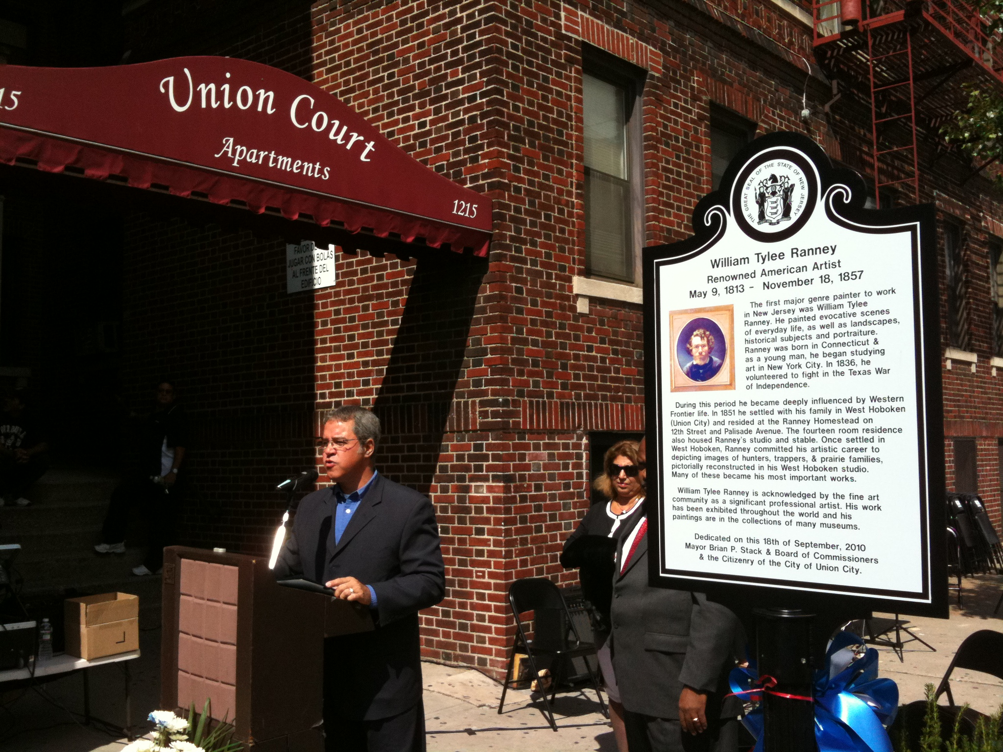 Dedication ceremony in Union City, New Jersey for a historical marker honoring painter William Ranney, who lived in Union City (when it was formerly West Hoboken), September 18, 2010. The marker, which is the fourth one Union City has dedicated for one of its notable residents, stands outside the Union Court Apartments at 1215 Palisade Avenue, where Ranney’s estate once stood. Speaking at the podium is Union City Commissioner of Public Affairs Lucio P. Fernandez. Behind him, partially obscured by the marker, is Commissioner of Public Works Tilo Rivas. Photo by Luigi Novi. This photo may be used, modified and published for any purpose, only if the photographer is visibly credited in each instance in which it is used. (See licensing information below.) For more information on my photos, you can contact me here.